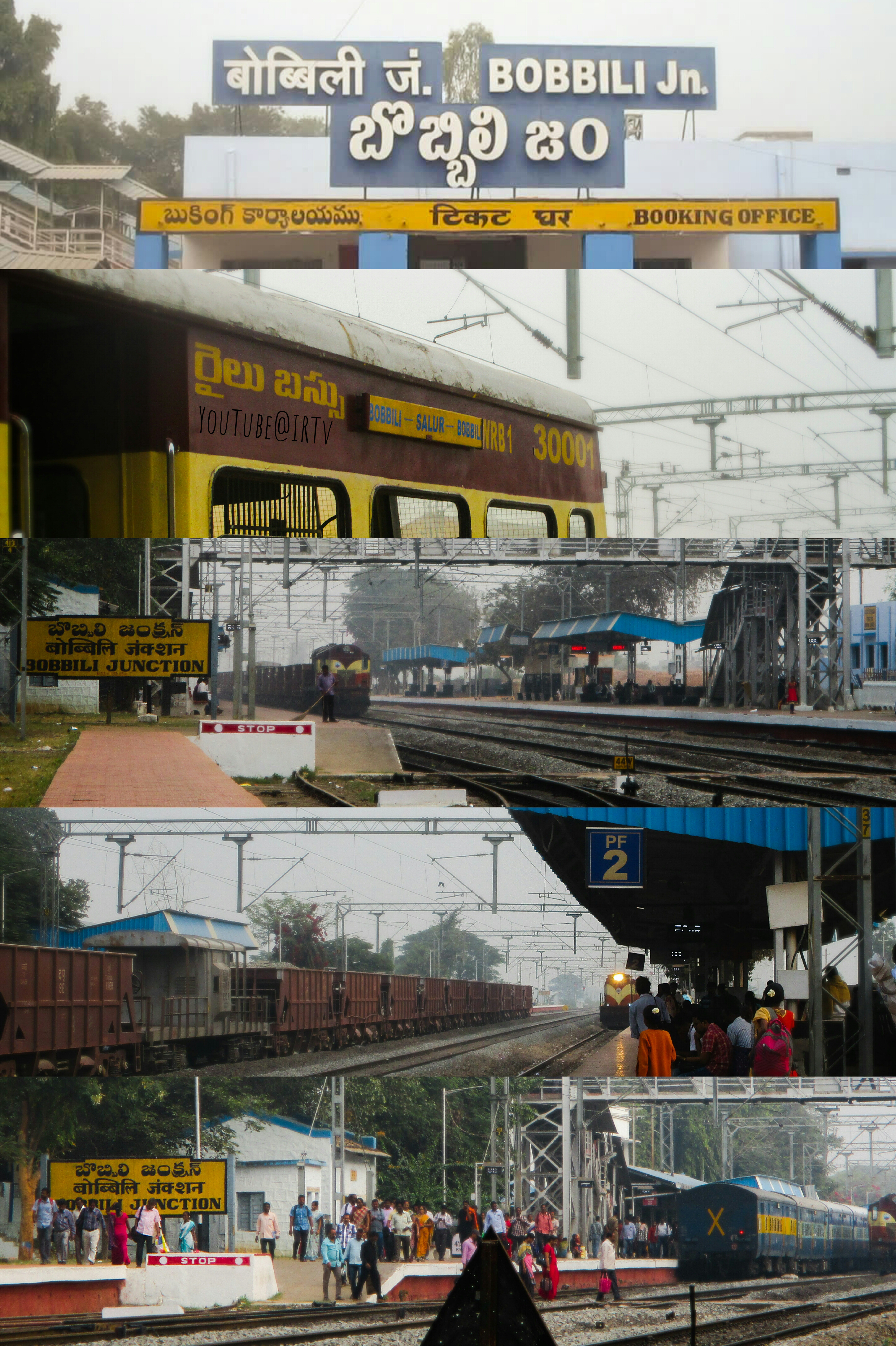 Vizianagaram Bobili Railway Station Picture